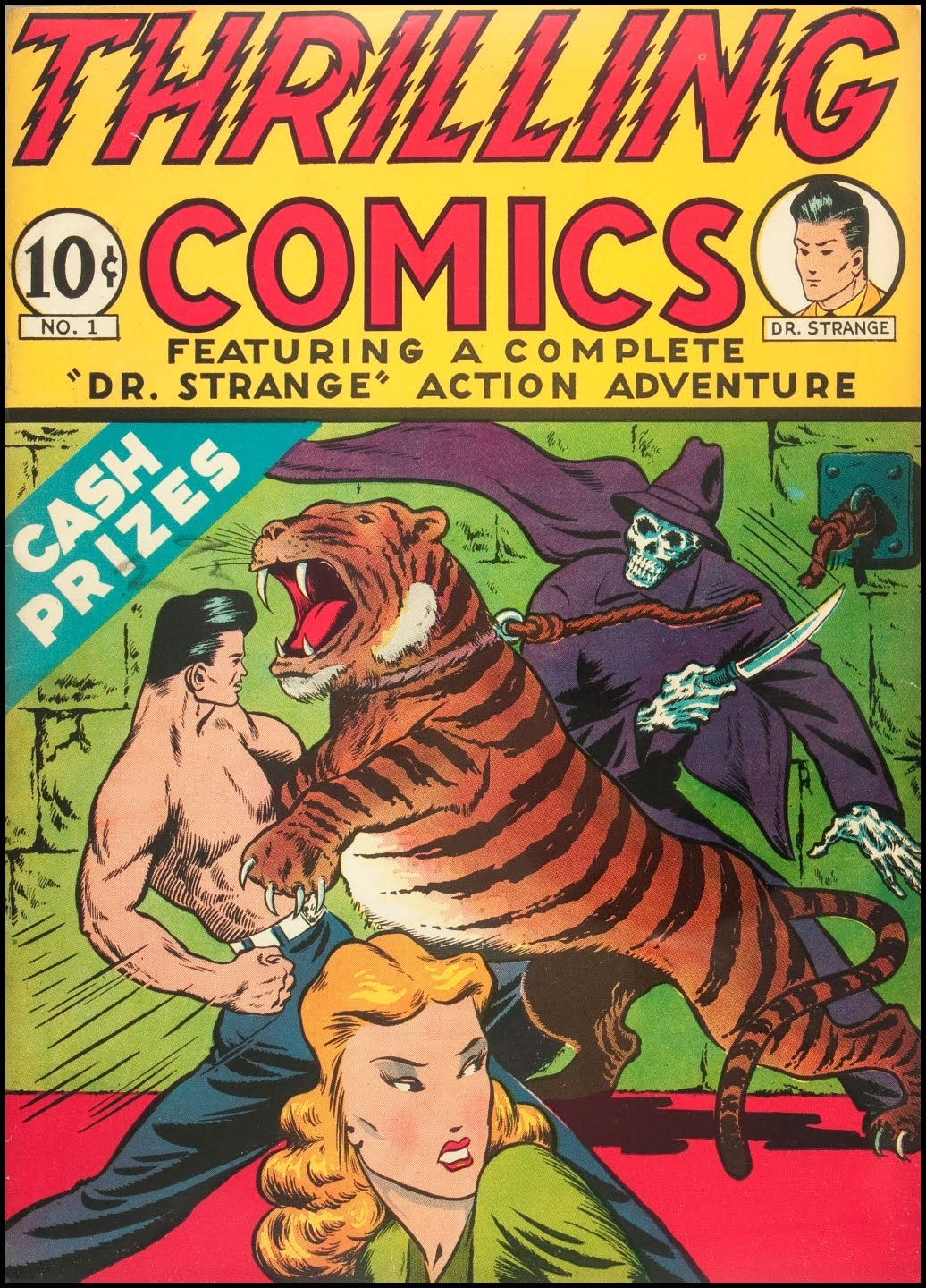 Cover of Thrilling Comics #1